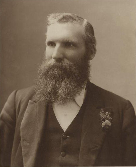 This image shows a photograph of Sydney Smith, taken c. 1901.